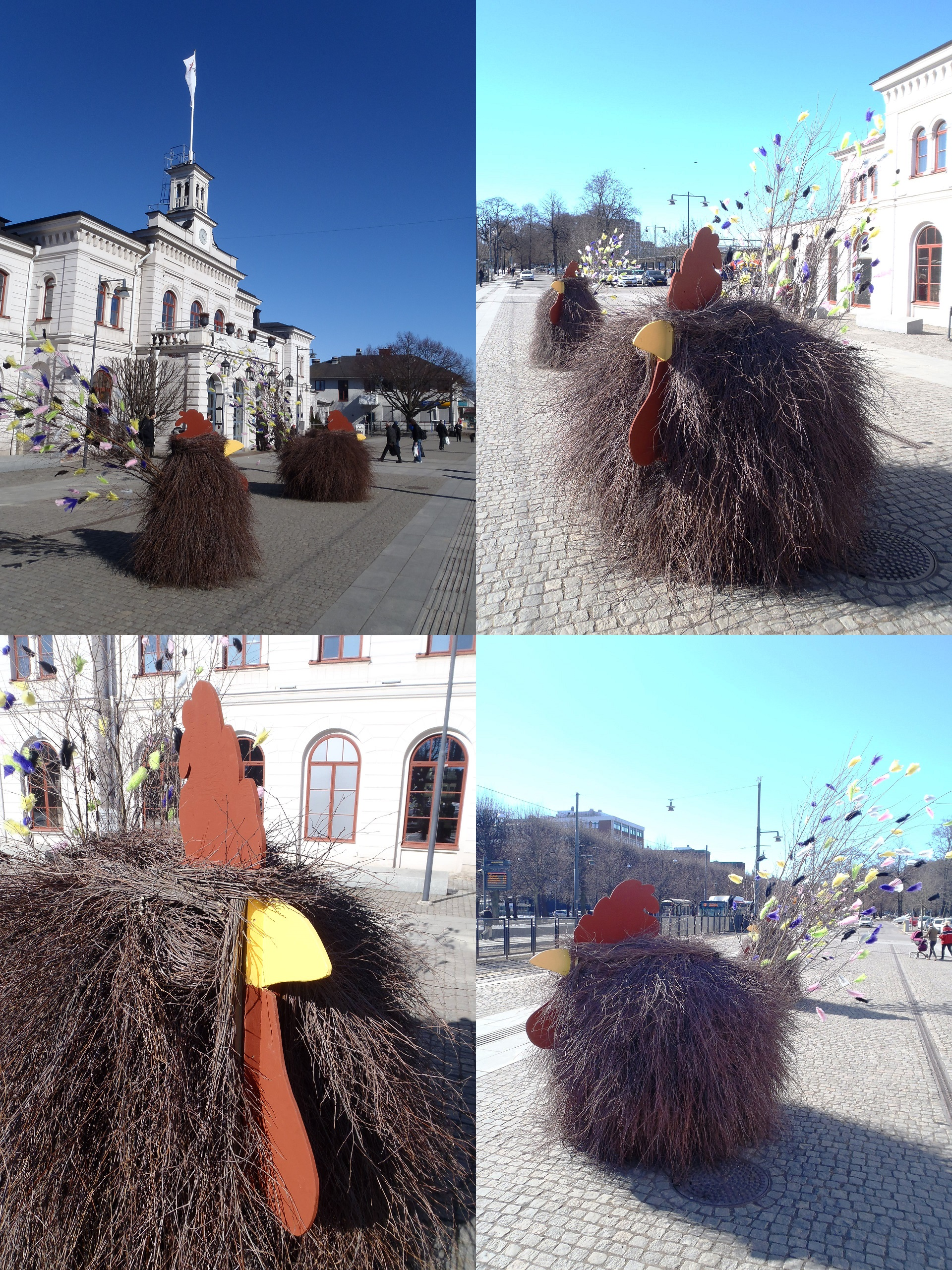 Easter 2013 at the Norrköping Train Station.